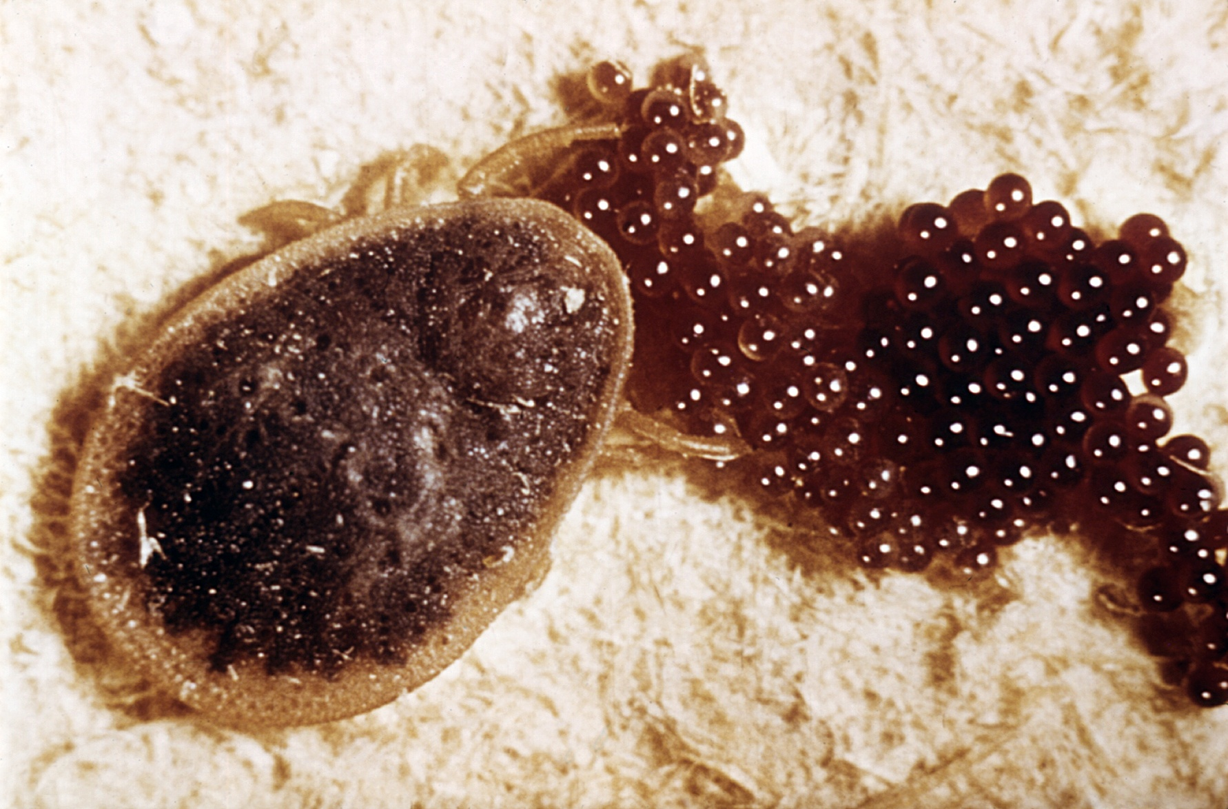 Argas sp. Female Argasid tick has laid a batch of eggs.